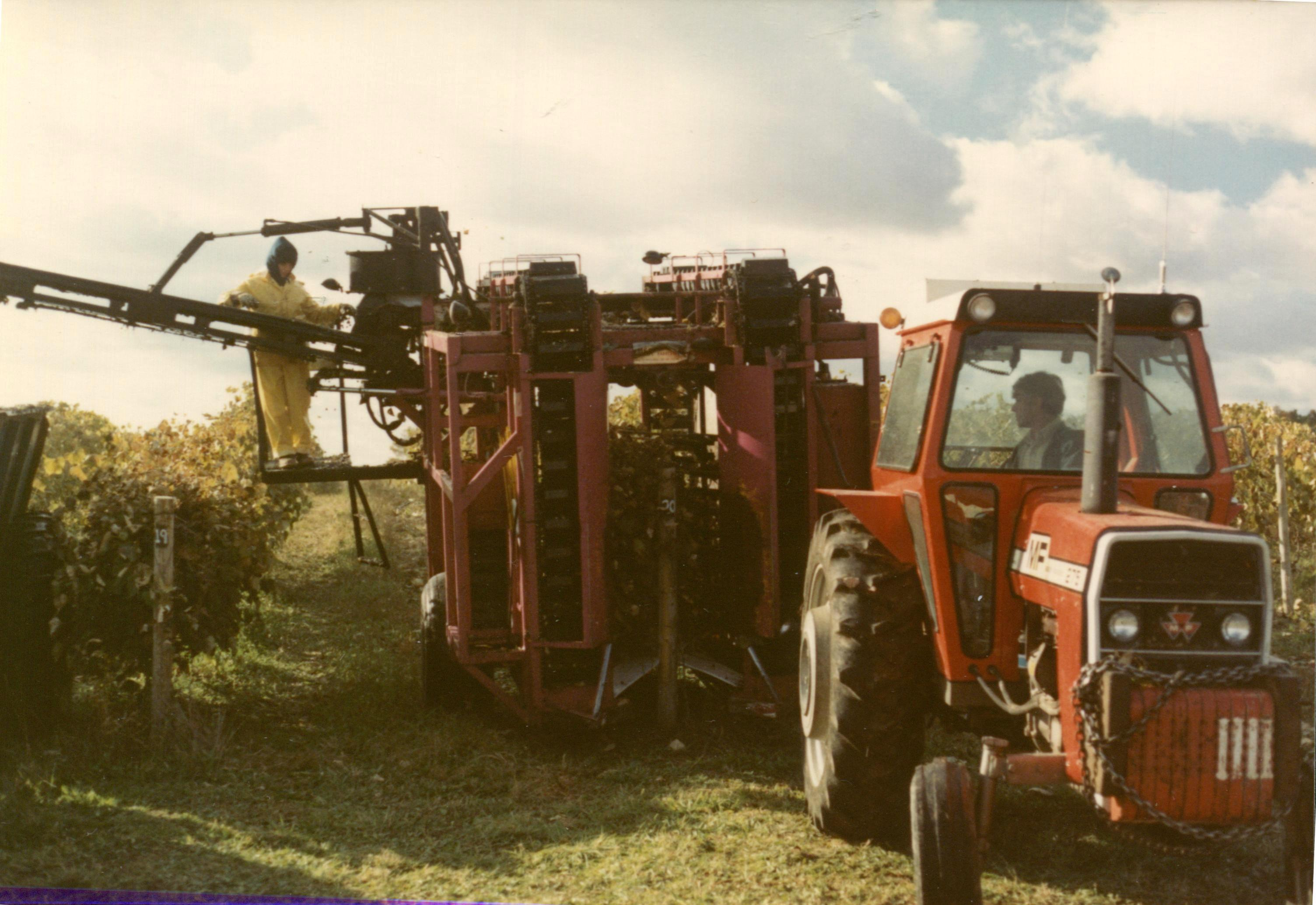 Grape harvesting, southwest Michigan.